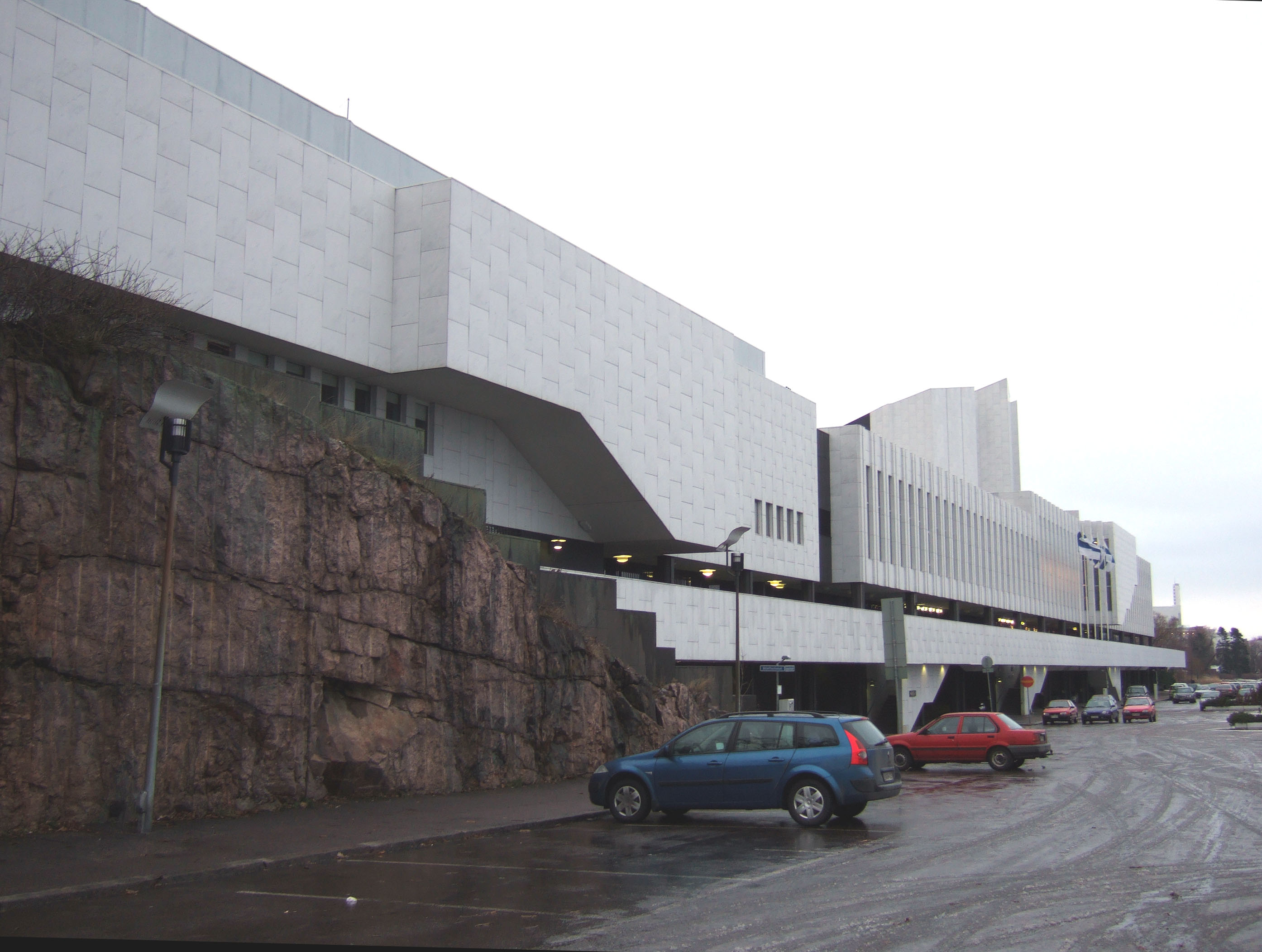 Finlandia Hall in Helsinki, Finland